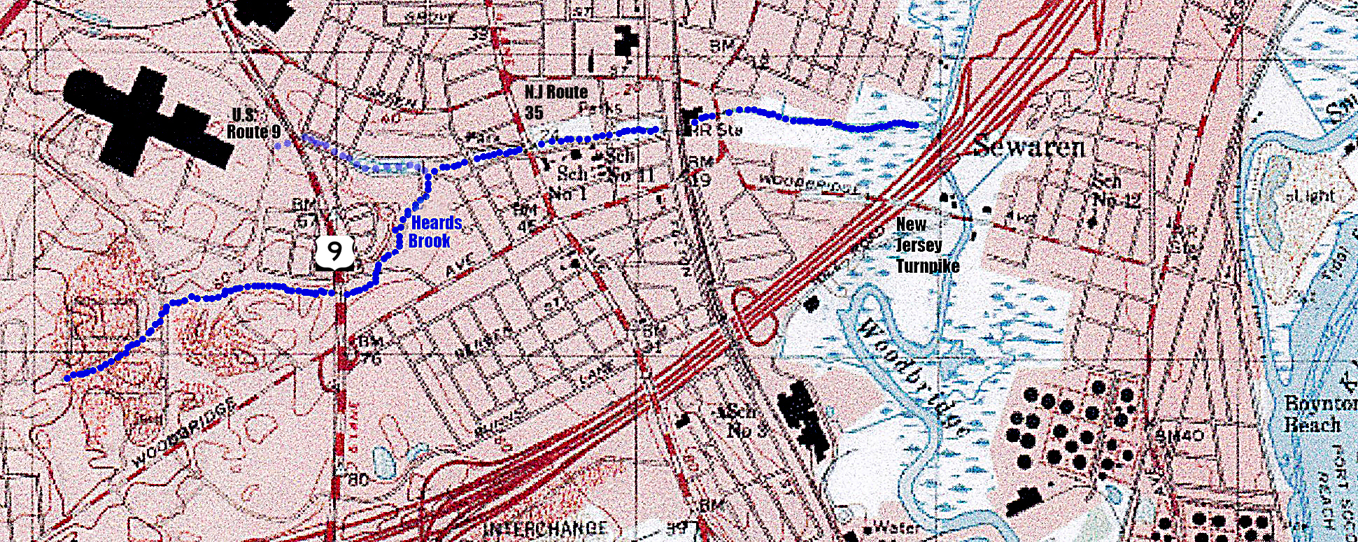 Course of Heards Brook; USGS map, with geographical markers added